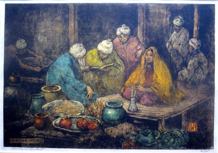 Amritsar, India by Charles W. Bartlett, hand colored etching, ca. 1923-1927